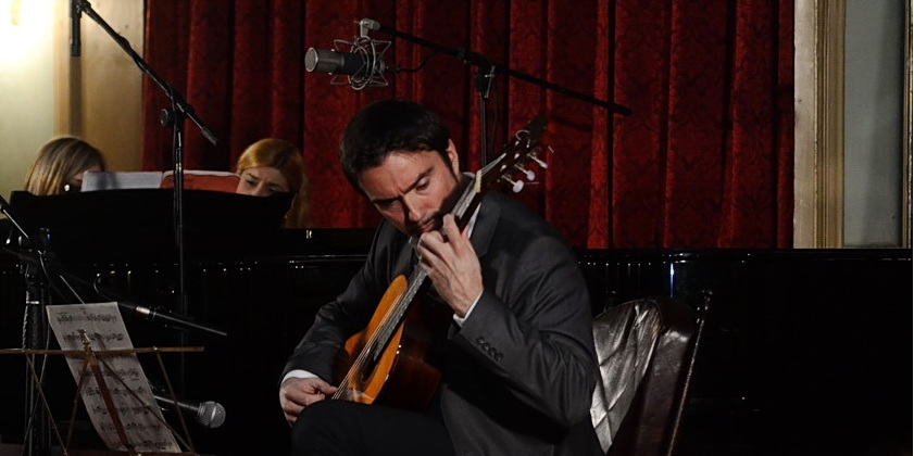 Adnan Ahmedic Classical Guitarist Performing in Concert